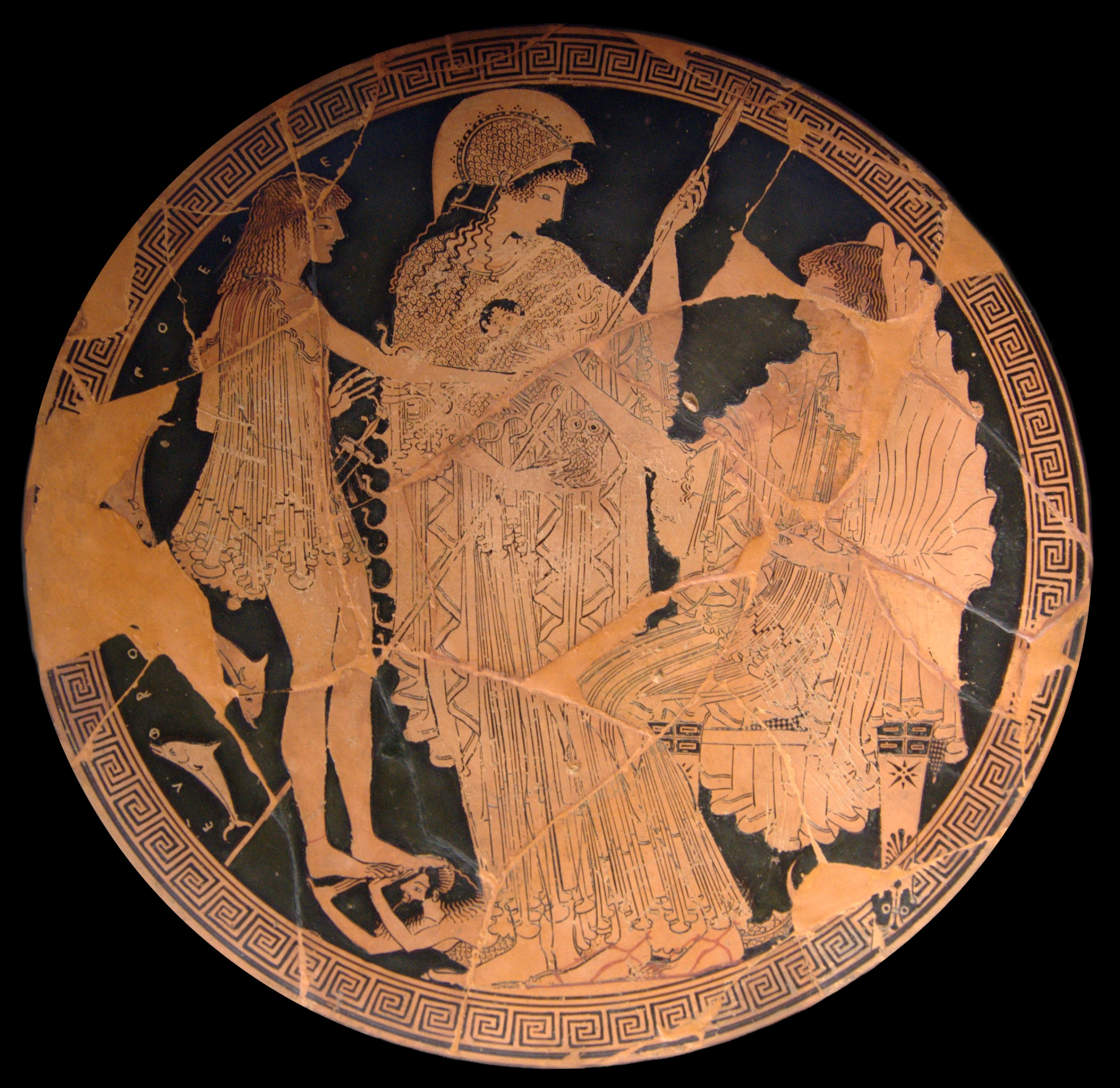 Theseus and Amphitrite with Athena looking on. Interior from an Attic red-figure cup, 500–490 BC. From Cerveteri (ancient Caere), Latium.